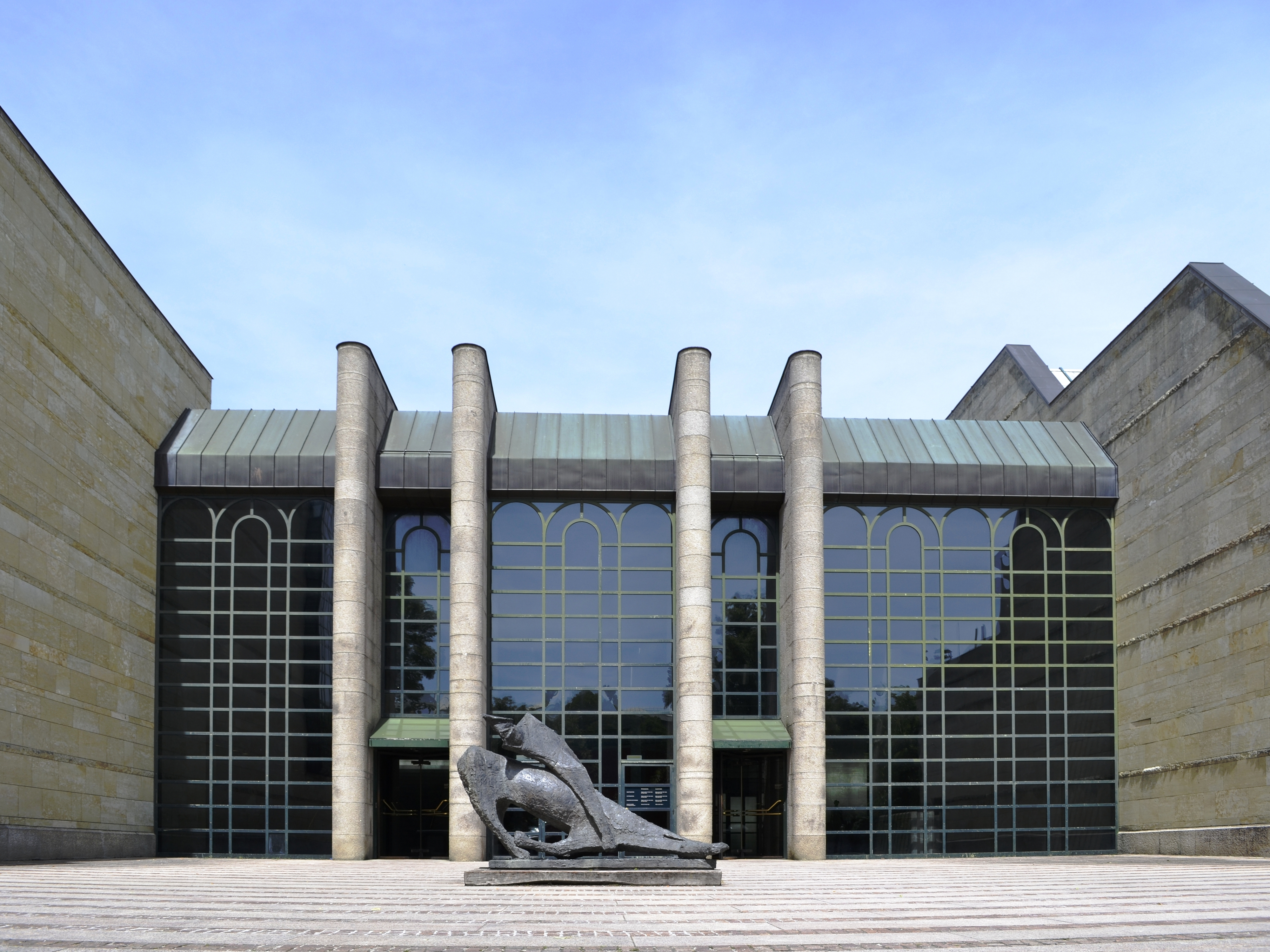 The Entrance of Neue Pinakothek, Munich/Germany with sculpture by Marino Marini.